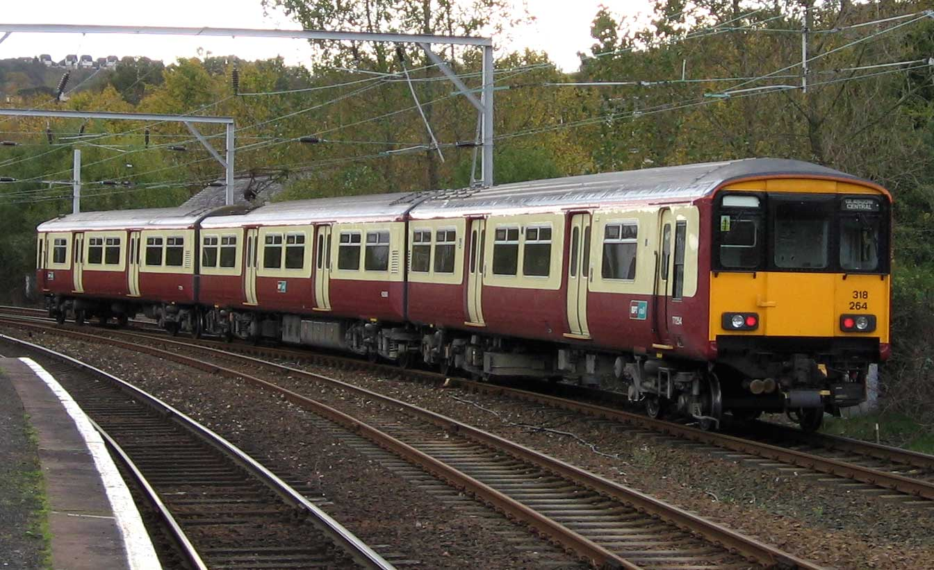 Strathclyde Partnership for Transport refurbished British Rail Class 318 train 318264 leaving Gourock railway station, Gourock